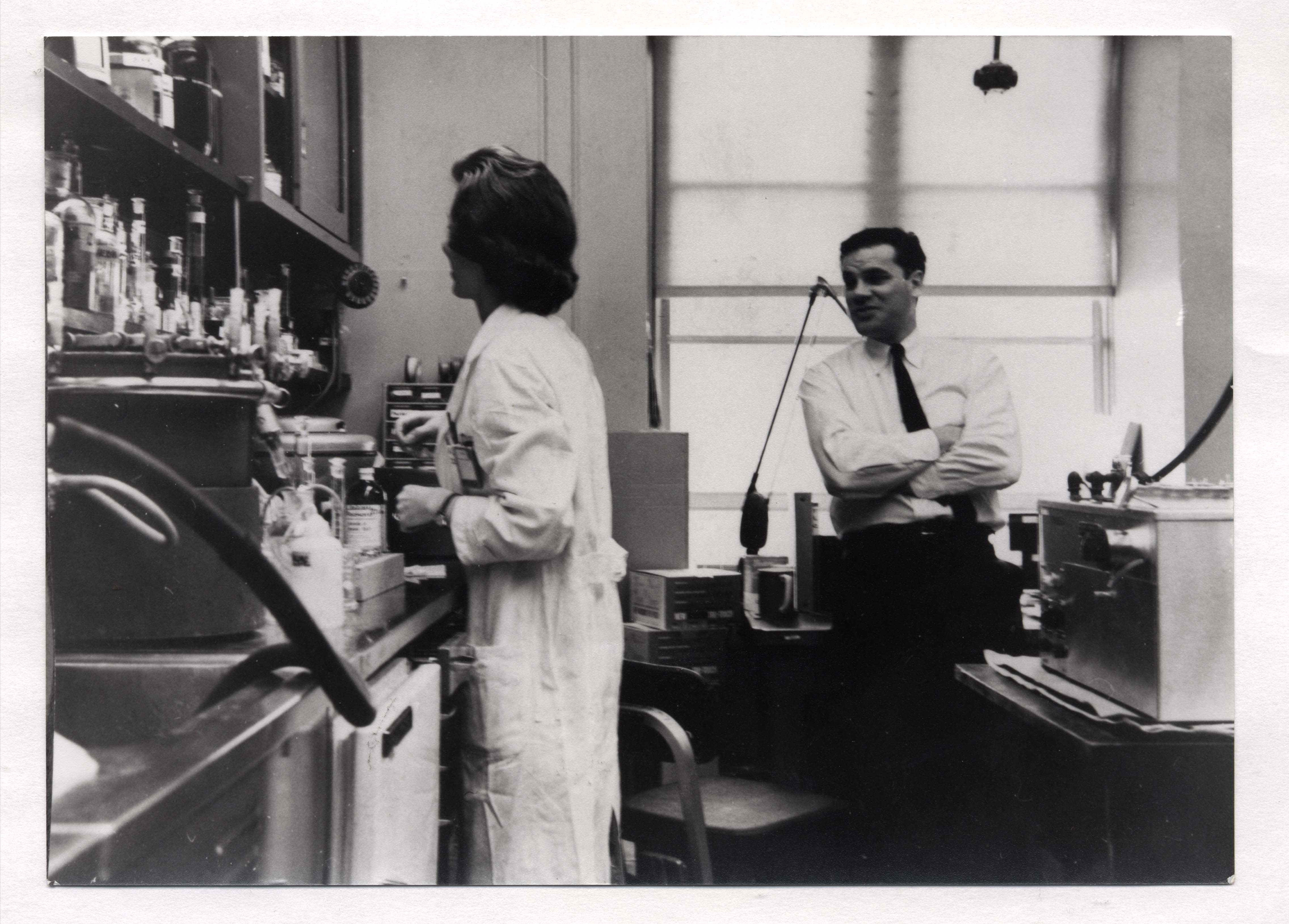 Martin Rodbell and Ann Butler Jones at NIH's lab, circa 1963-1964.